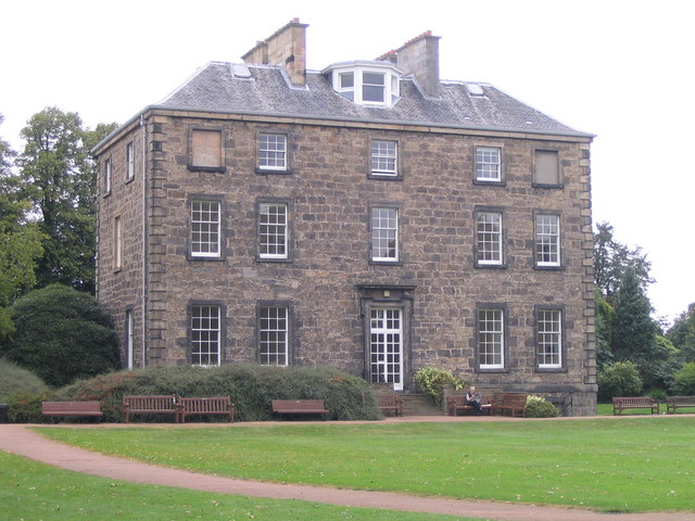 Inverleith House In the Royal Botanic Gardens, Edinburgh, it was the residence of the Regius Keeper of the Gardens, but is now used as an art and exhibition gallery.